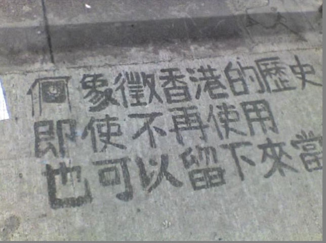 demonstrators protesting against the demoltion of the Star Ferry pier on December 16, 2006